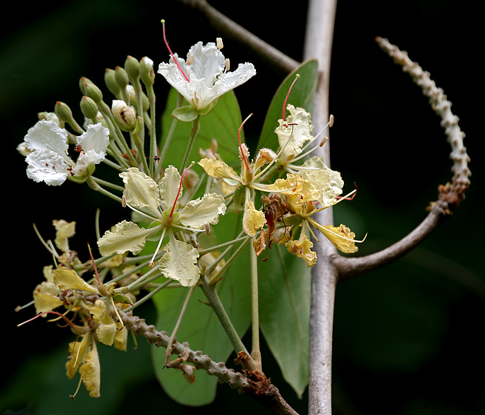 Bauhinia vahlii - Camel's foot climber, Bauhinia climber, Maloo Creeper • Assamese: Nak kati lewa • Bengali: Chehur lata, Shimool • Hindi: मालू Malu, Jallaur, Jallur, Mahul • Kannada: Chambolli • Malayalam: Mottanvalli • Marathi: चम्बुली Chambuli • Nepali: भोर्ला Bhorla • Oriya: Siyali • Sanskrit: Asmantaka, Malanjhana • Tamil: Mandarai, Adda, Kattumandarai • Telugu: Madapu, Adattige at Ananthagiri Hills, in Rangareddy district of Andhra Pradesh, India.